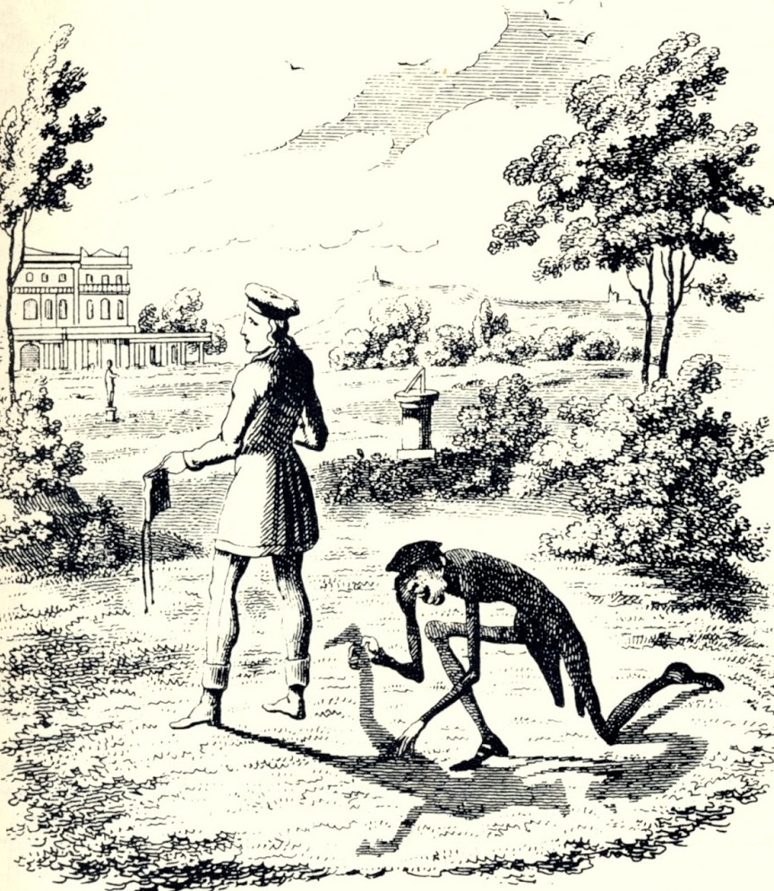 Adelbert von Chamisso: Peter Schlemihl